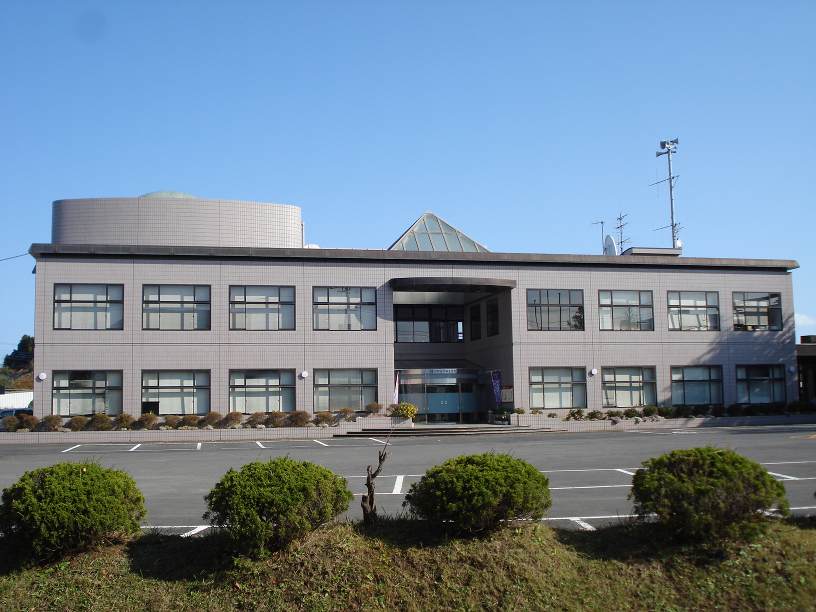 Namegata City Hall Aso Building (ex Aso Town Hall)